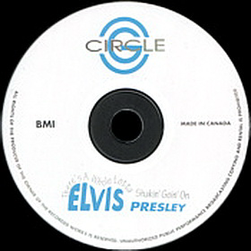 CD of Elvis Presley’s bootleg – There’s a Whole Lotta Shakin’ Goin’ On (1994)